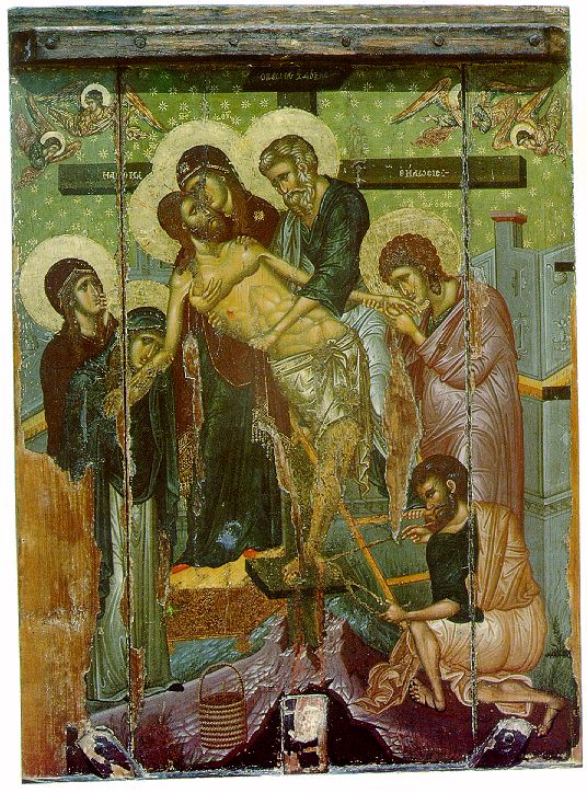 Descent from the cross, byzantine icon